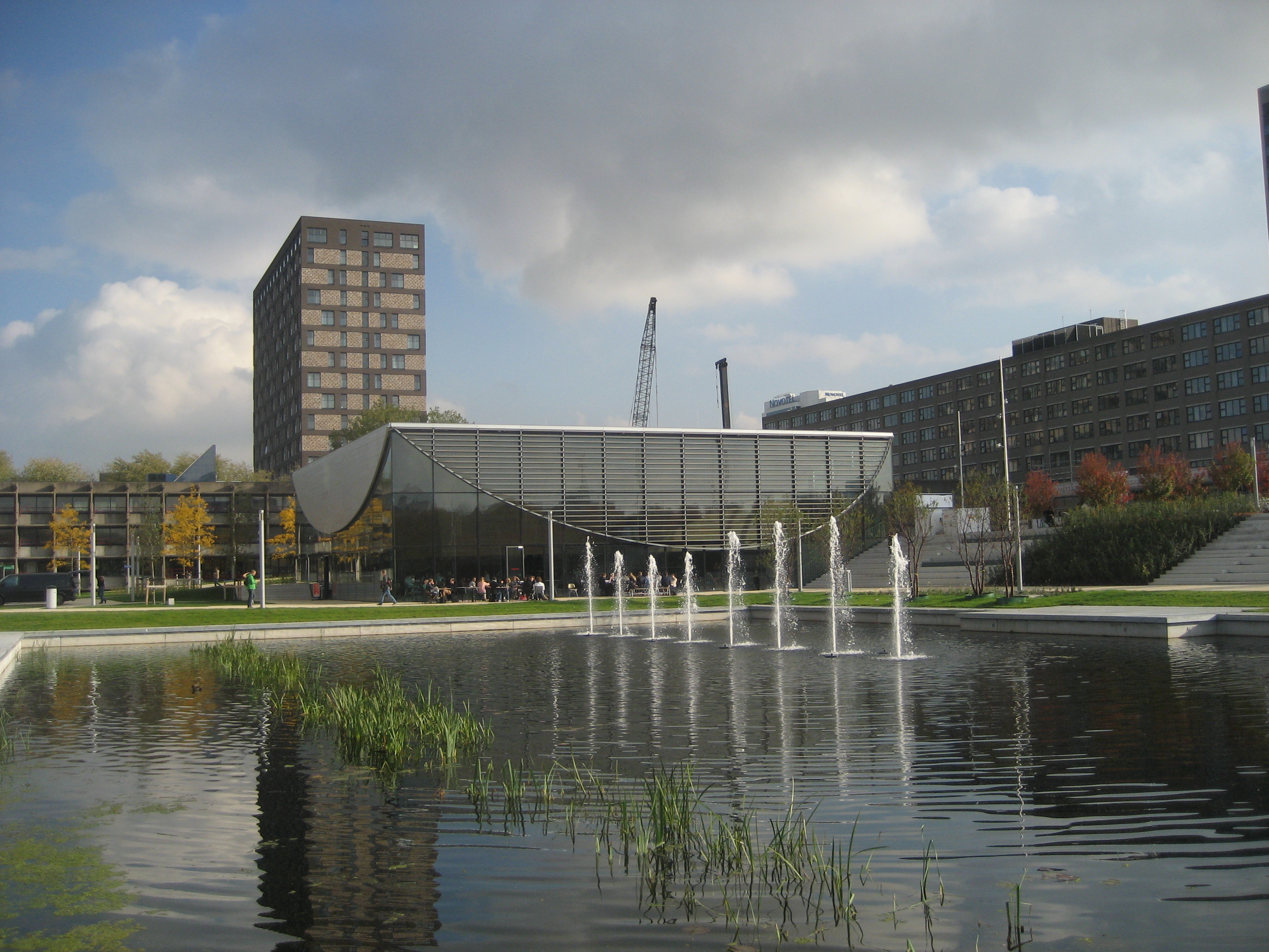 Erasmus University Rotterdam (The Netherlands). Pavillion (Erasmus-Paviljoen)